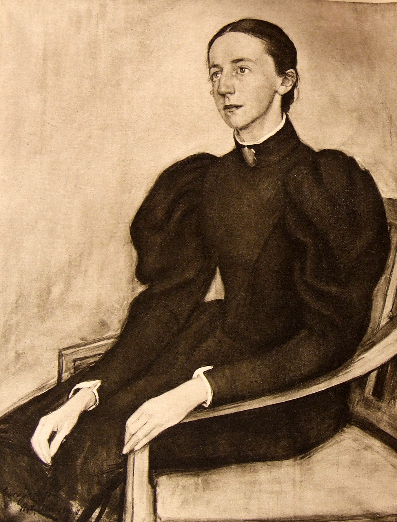 Portrait of Mathilda Wrede by Eero Järnefelt (1896)